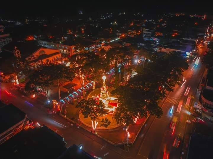 Aerial view of Malaybalay City Plaza, Bukidnon, Mindanao, Philippines